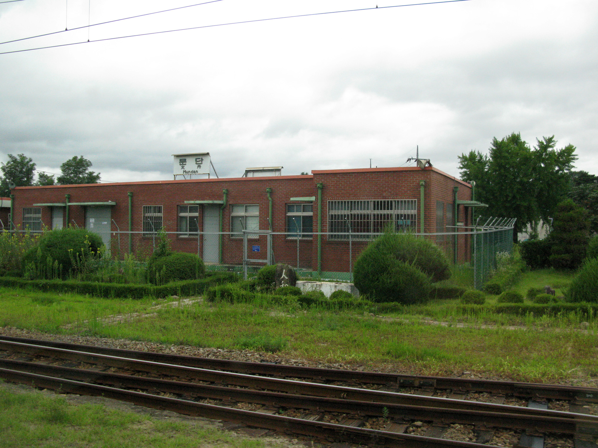 Yeongdong Line Mundan Signal Field